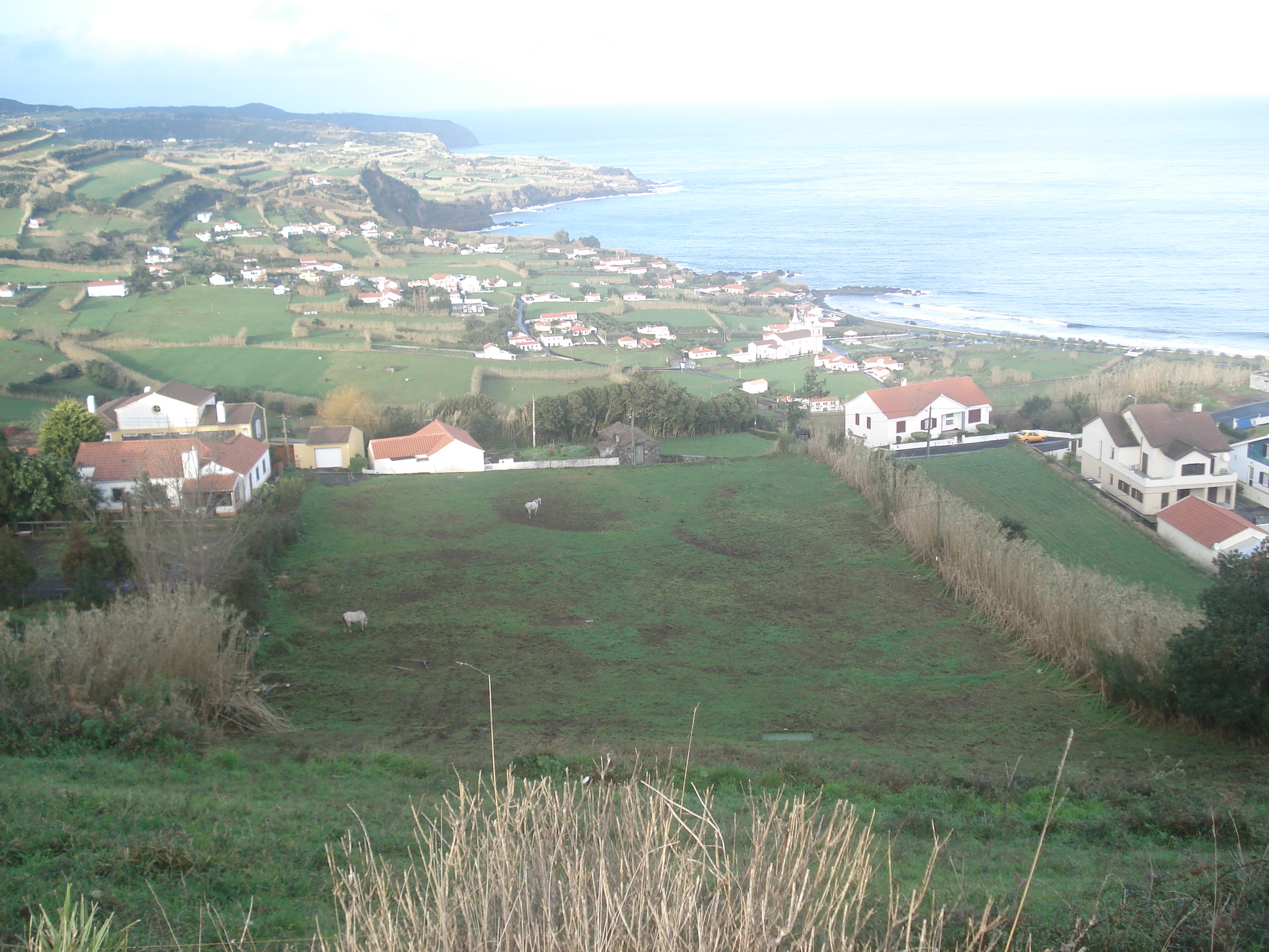 Praia do Almoxarife, looking north into the valley, Faial Island, Azores